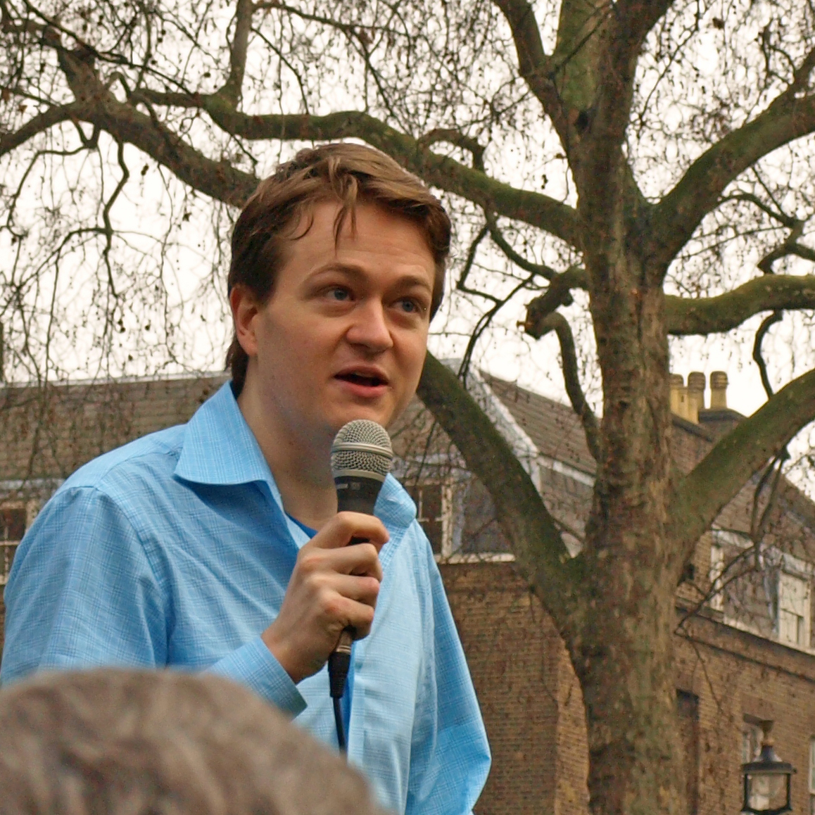 Johann Hari at a UK Uncut protest in Soho Square, London.